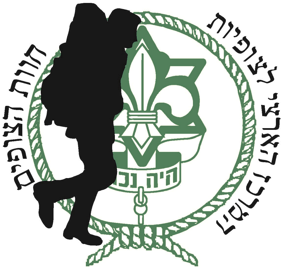 Israel Scout Ranch and the Israeli Scouting Center Logo